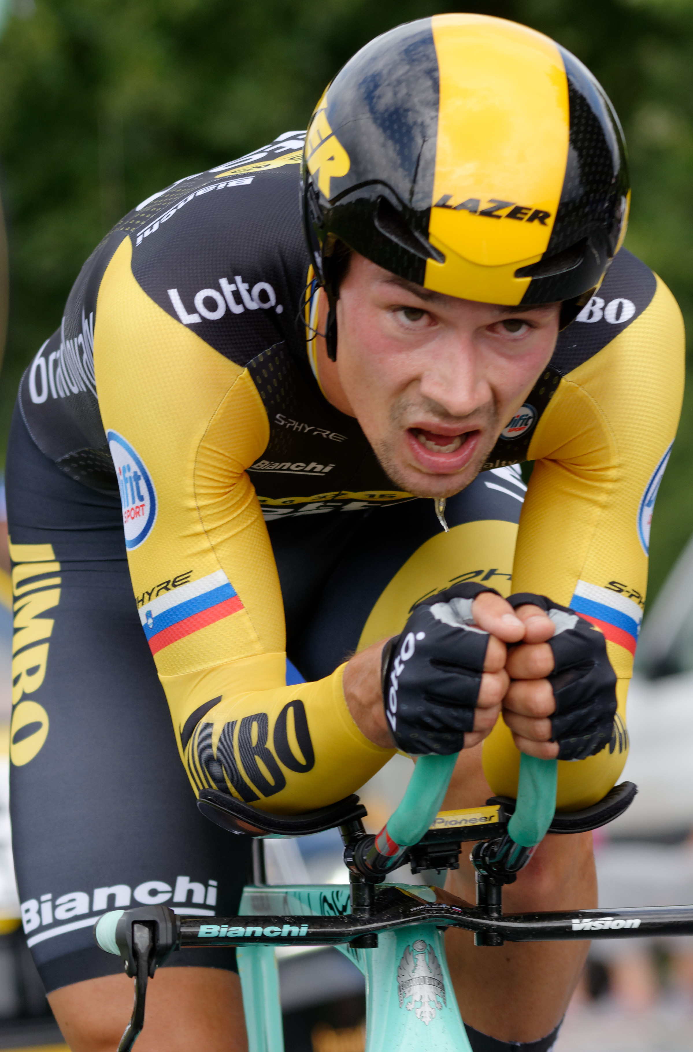 2018 Tour de France